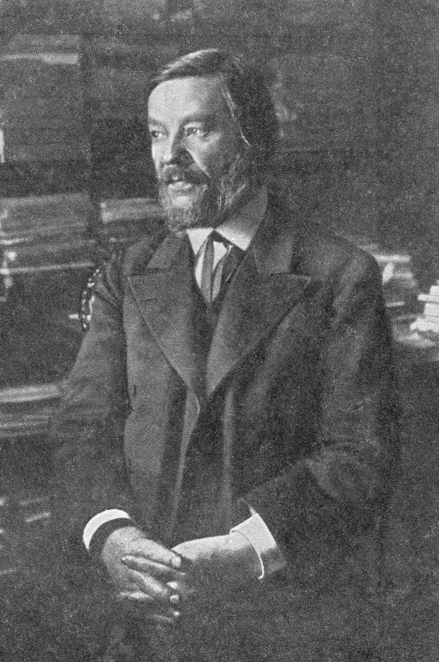 Corresponding member I. M. Sechenov